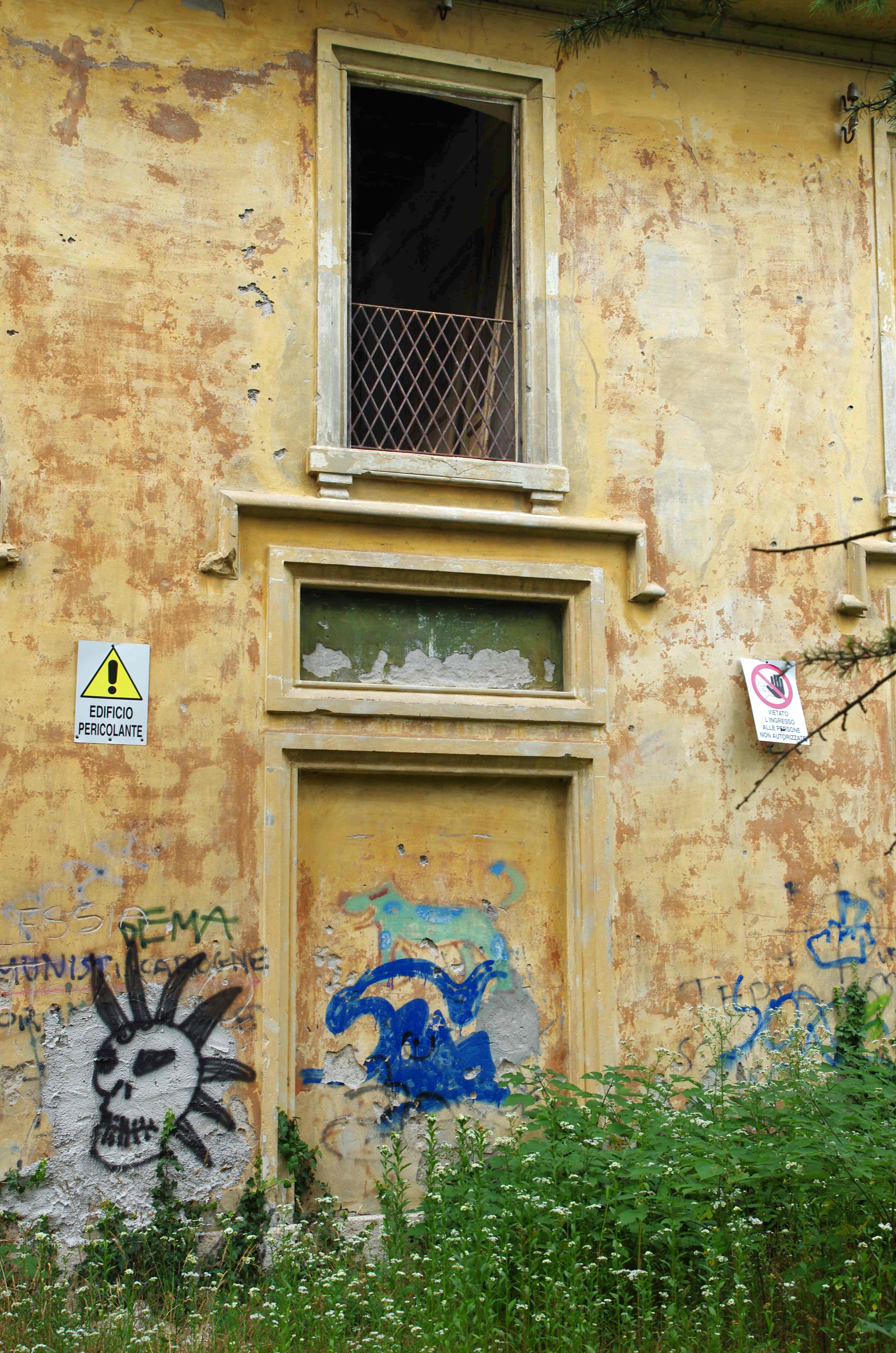 Typical example of mismanagement of the Italian cultural heritage, now being restored after decades of neglect